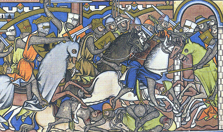 Morgan M.638 Maciejowski Bible. Folio 23